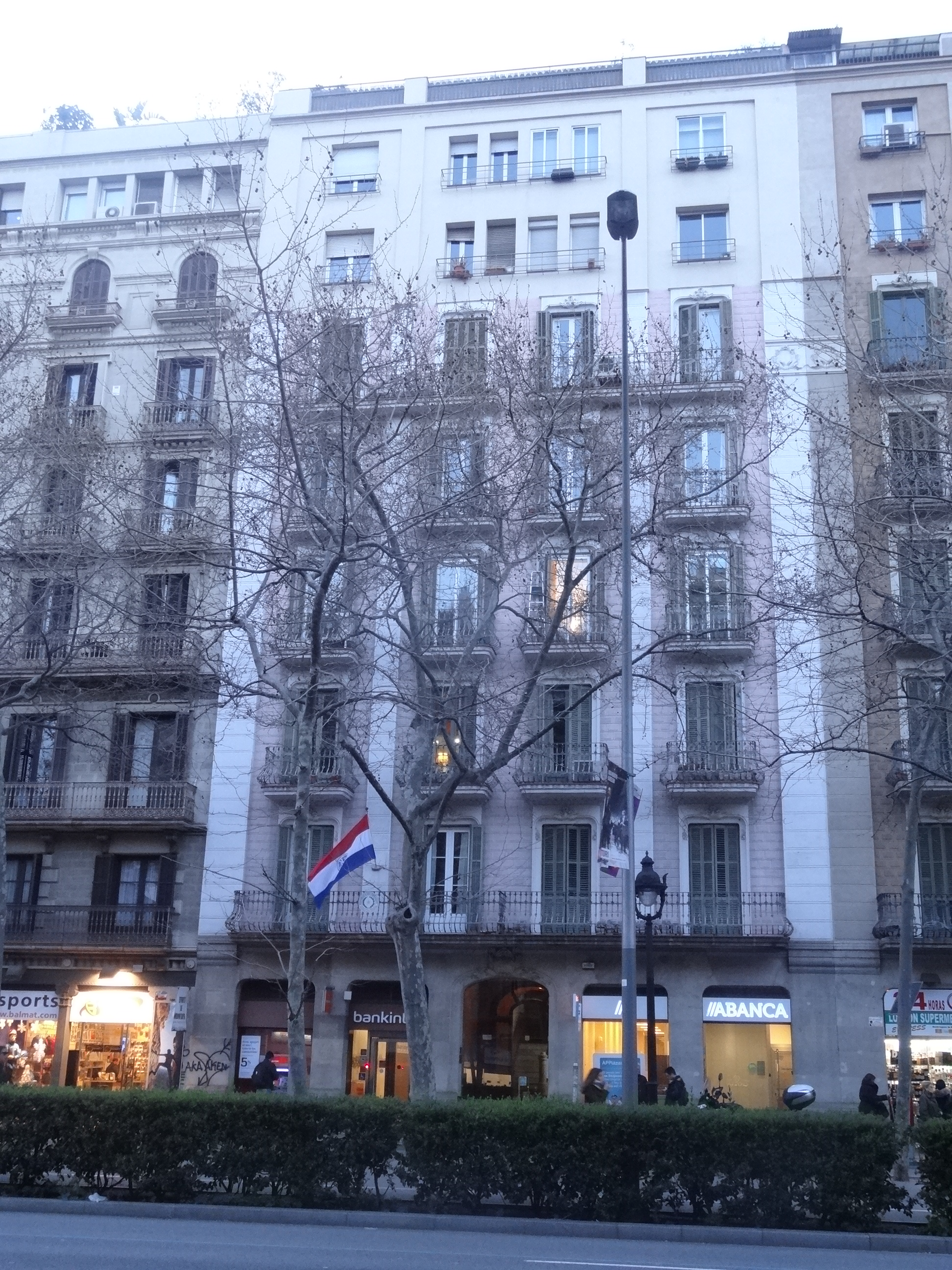 Paraguayan Consulate General, Barcelona. Gran via de les Corts Catalanes, 529